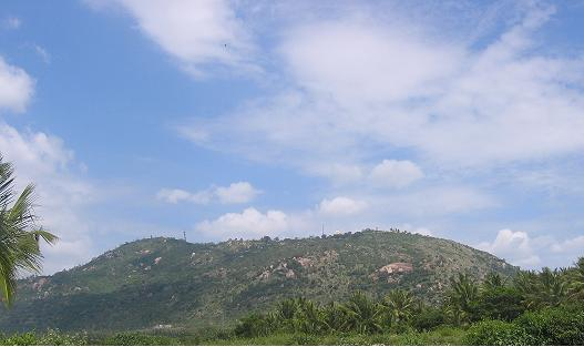 This is a photo of Chamundi Hills in Mysore, India